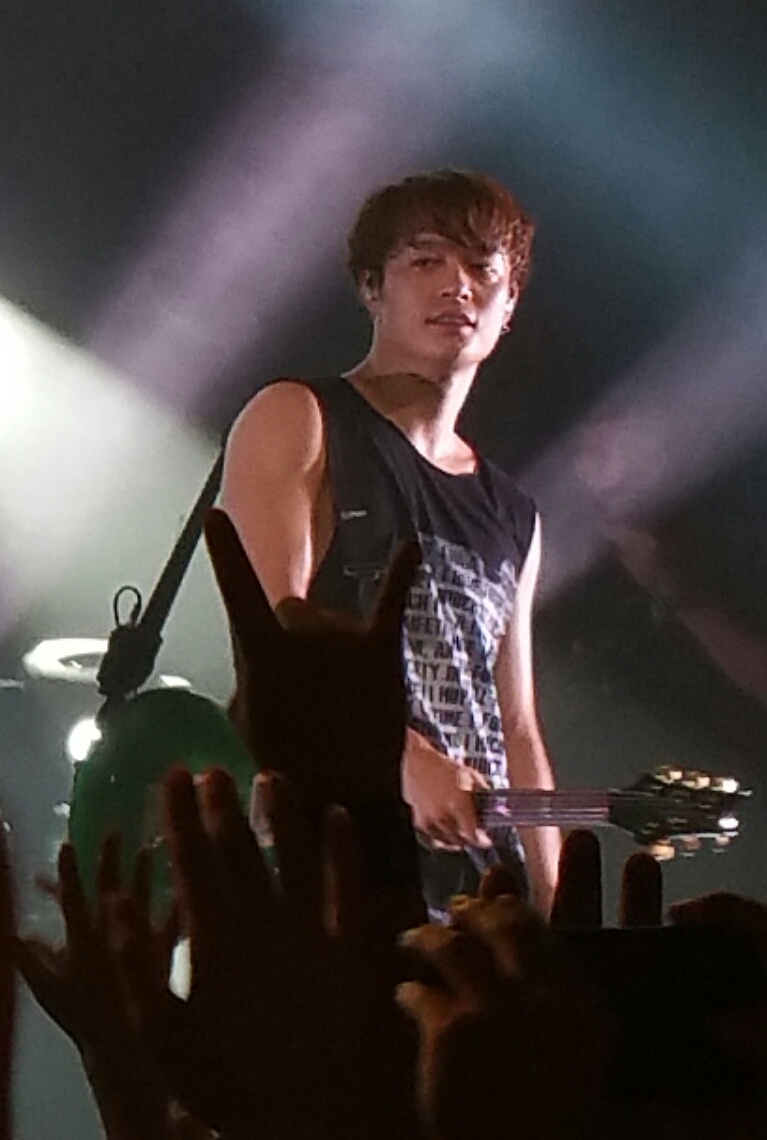 One Ok Rock guitarist Toru Yamashita, Ambitions Tour 2017, Playstation Theater, New York City, Day 2.